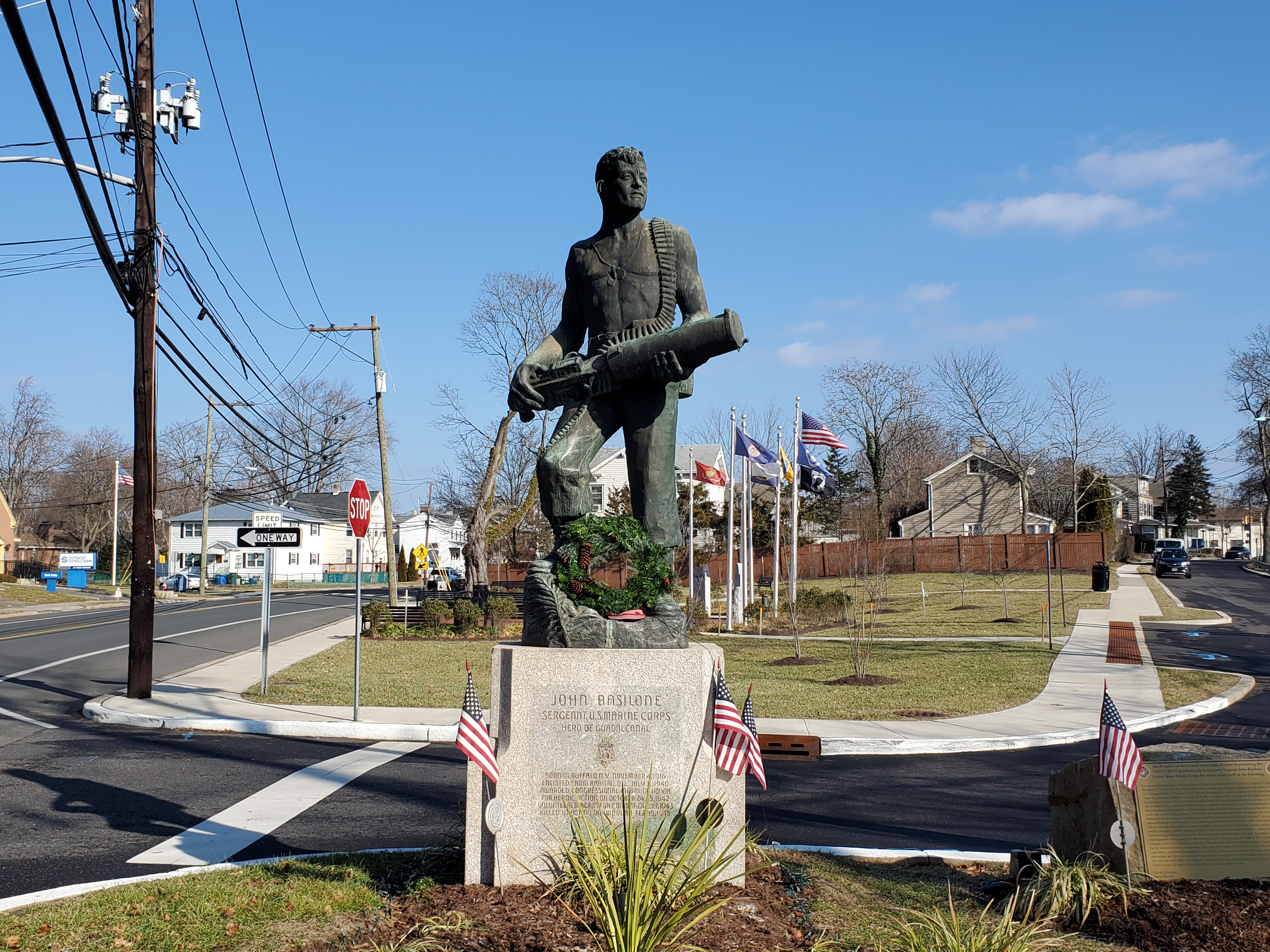 Raritan NJ Monument